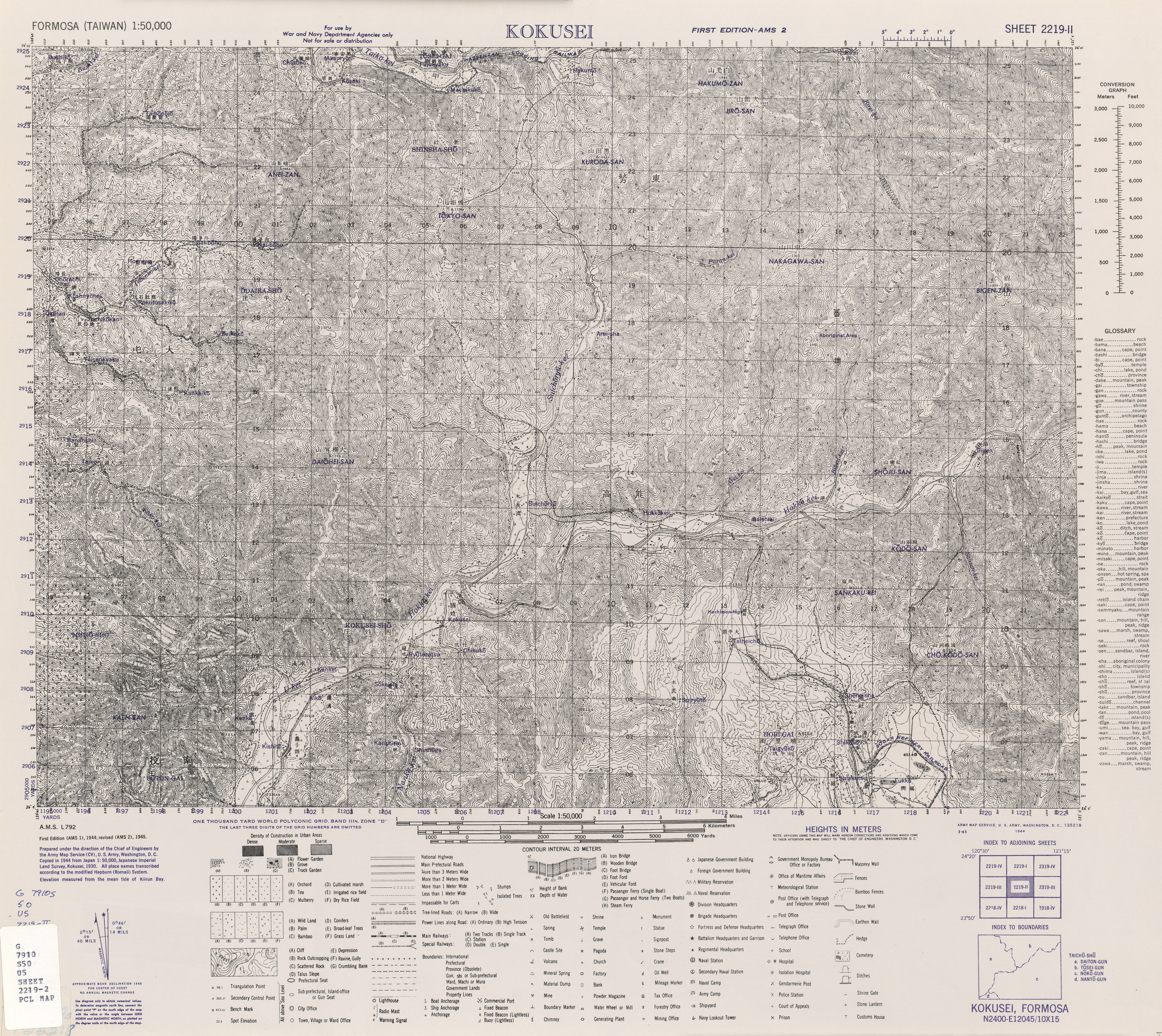 Map from Formosa (Taiwan) 1:50,000 AMS Series L792